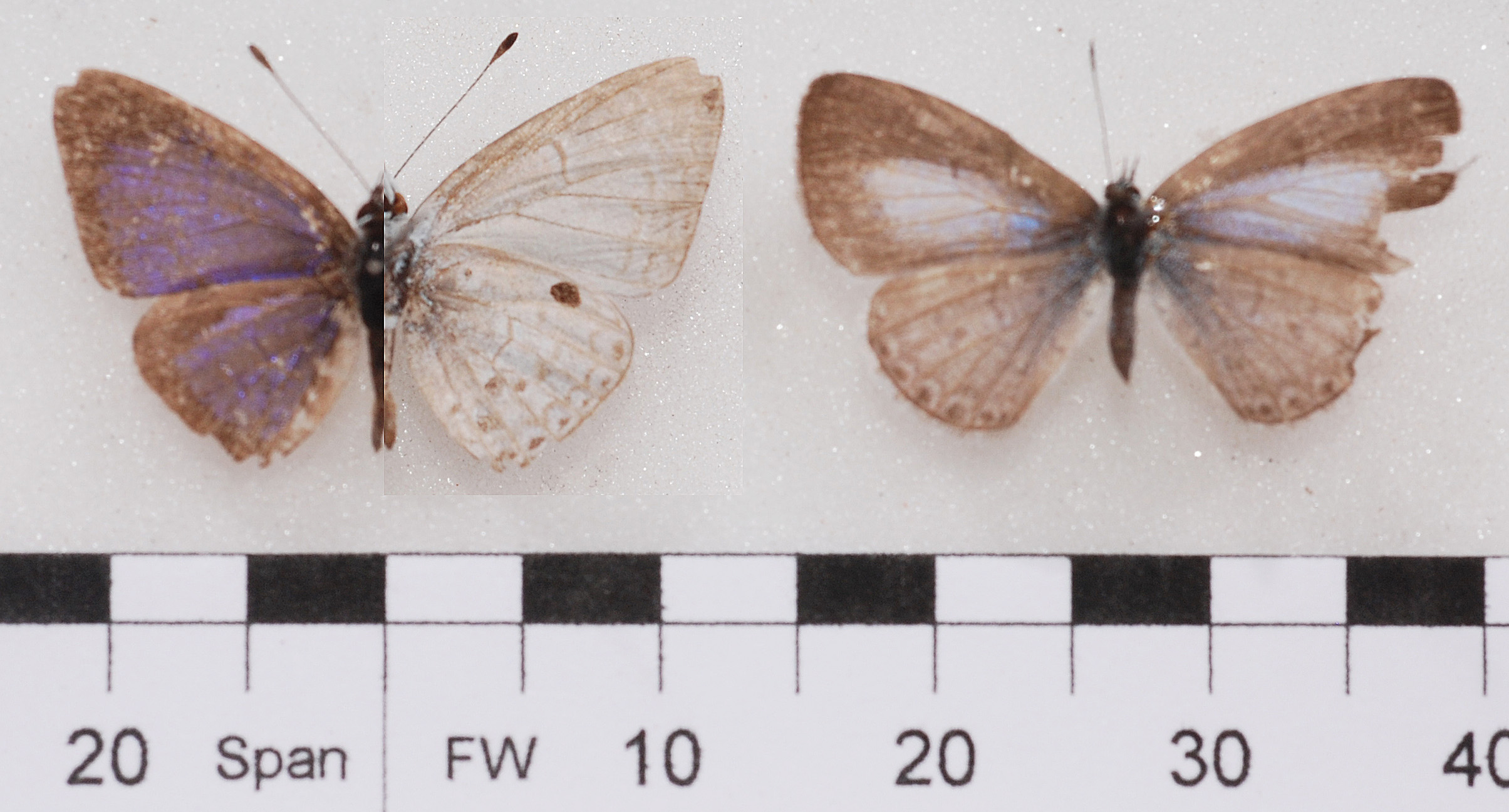 Cebrella pellecebra moultoni, set specimens, male, female, Brunei, Alan Cassidy photo